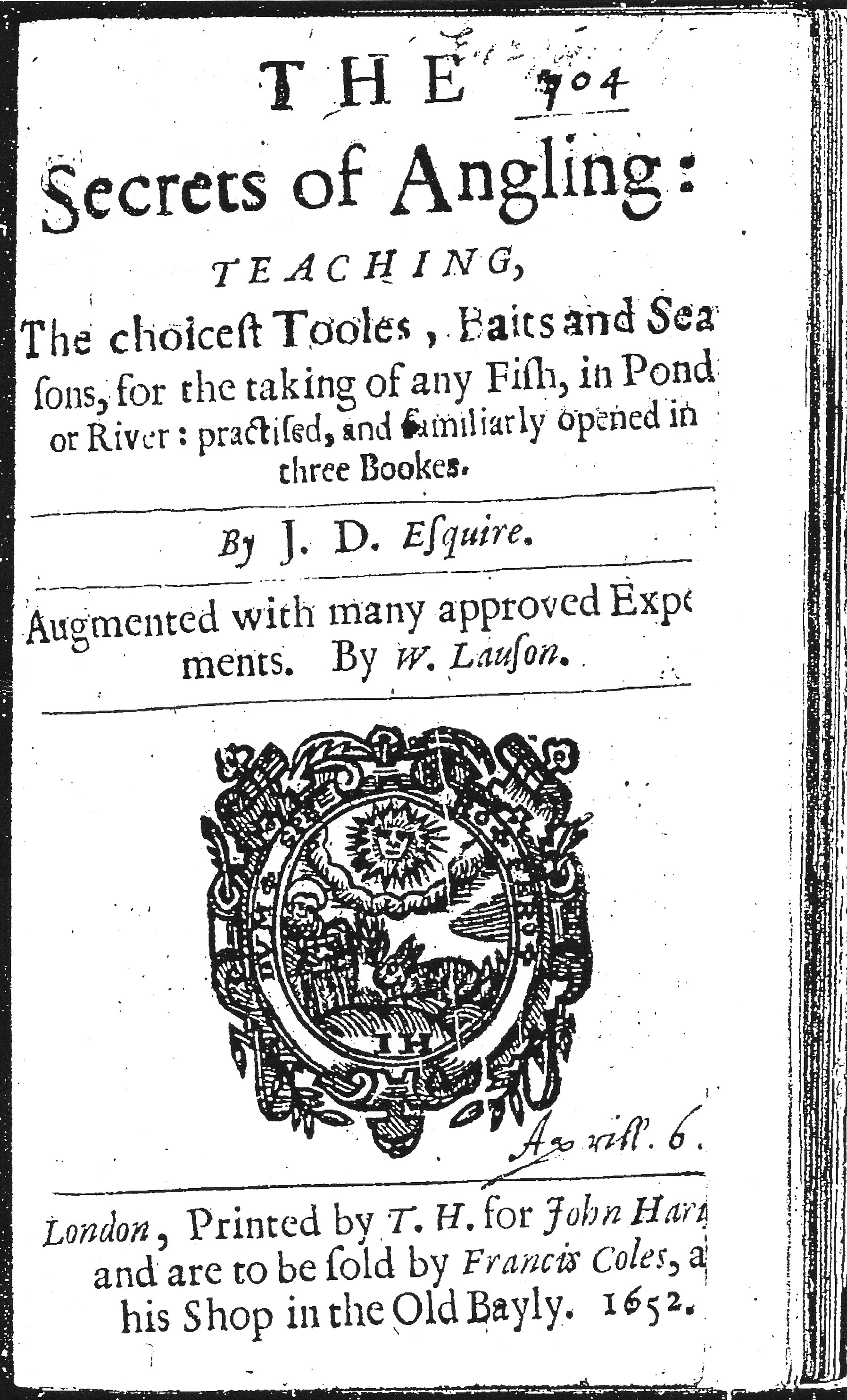 Title page of "The Secrets of Angling" by John Dennys, 4th. edition, 1652. British Library E.1294(4)